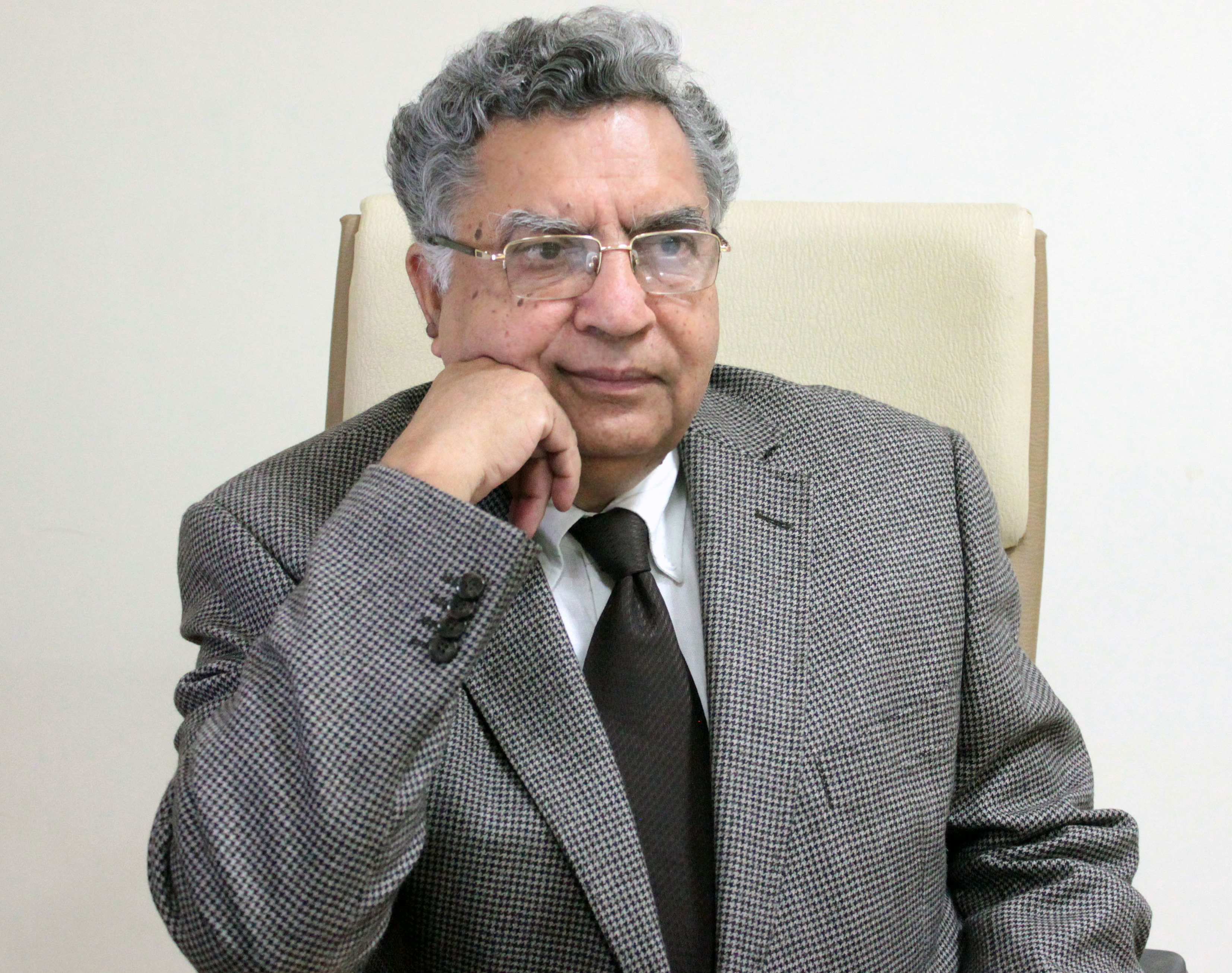 Prof. Tirath Das Dogra (Changotra), Former Director, AIIMS, New Delhi 110029.